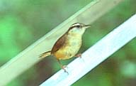 Thryothorus ludovicianus. Transwiki approved by: User:Dmcdevit. This image was copied from en. Carolina Wren from USDA Forest Service.